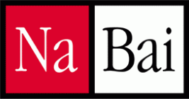 Logo of Nafarroa Bai